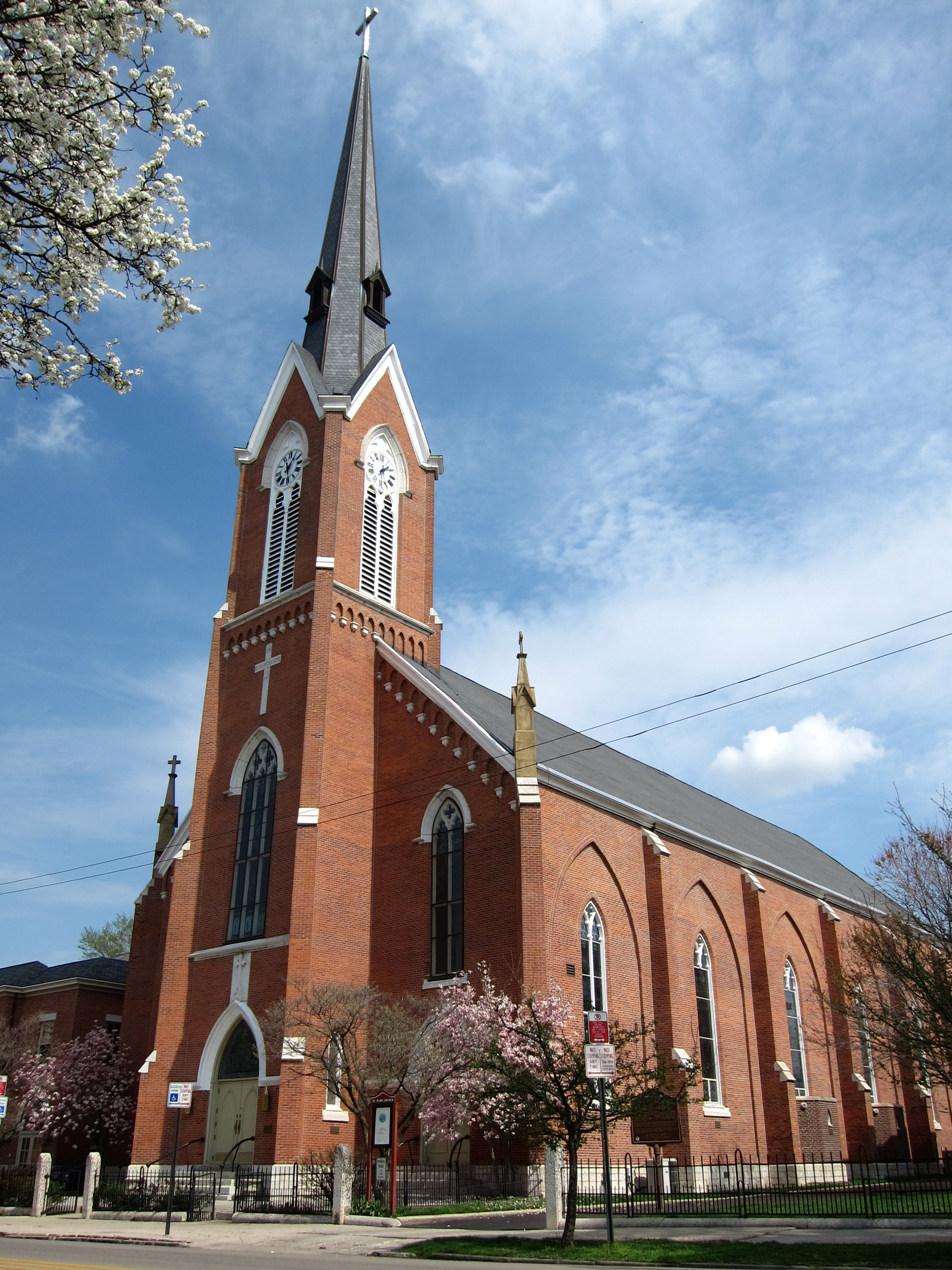 Saint Mary of the Assumption Catholic Church (C-bus, OH), exterior, springtime 2